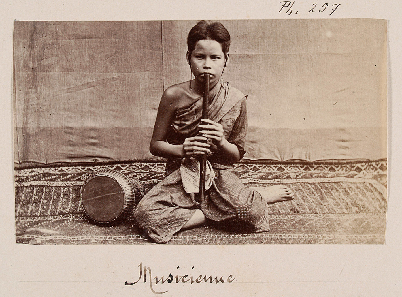 Khmer female musician taken by Emile Gsell, mid 1800s. Cambodia OLYMPUS DIGITAL CAMERA